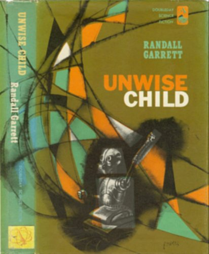 Randall Garrett - Unwise Child - book cover